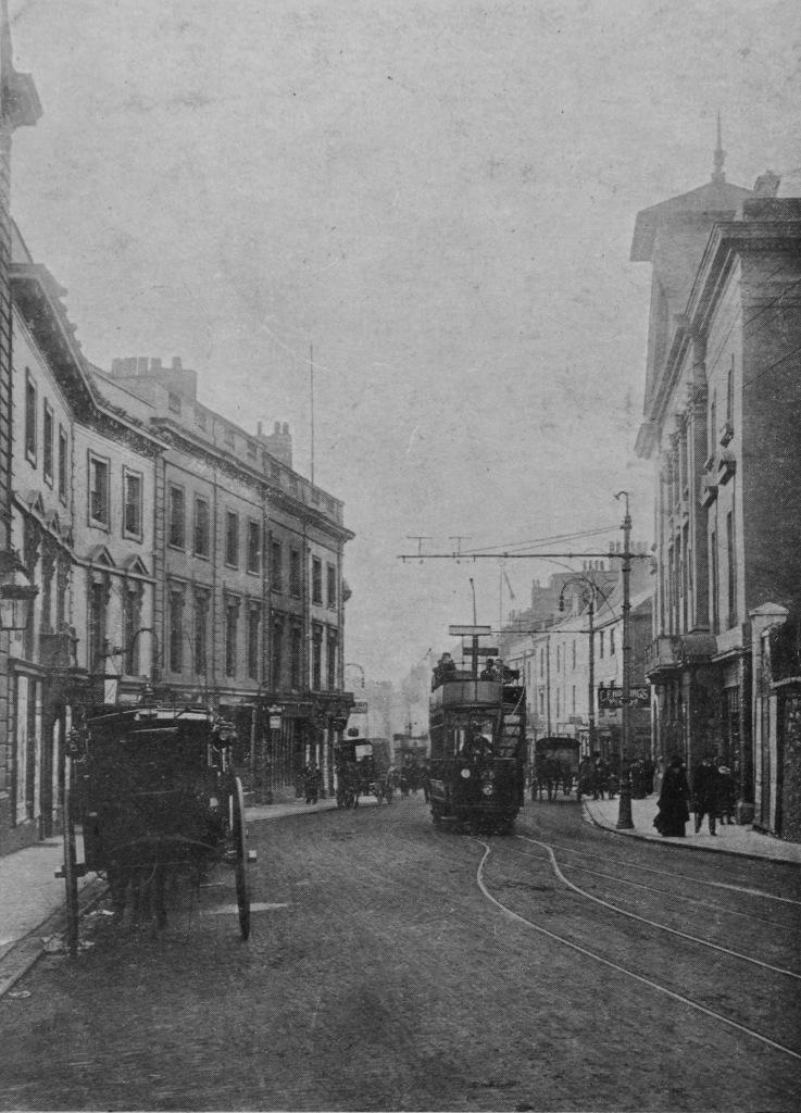 Devonport and District Tramways car 25 stands